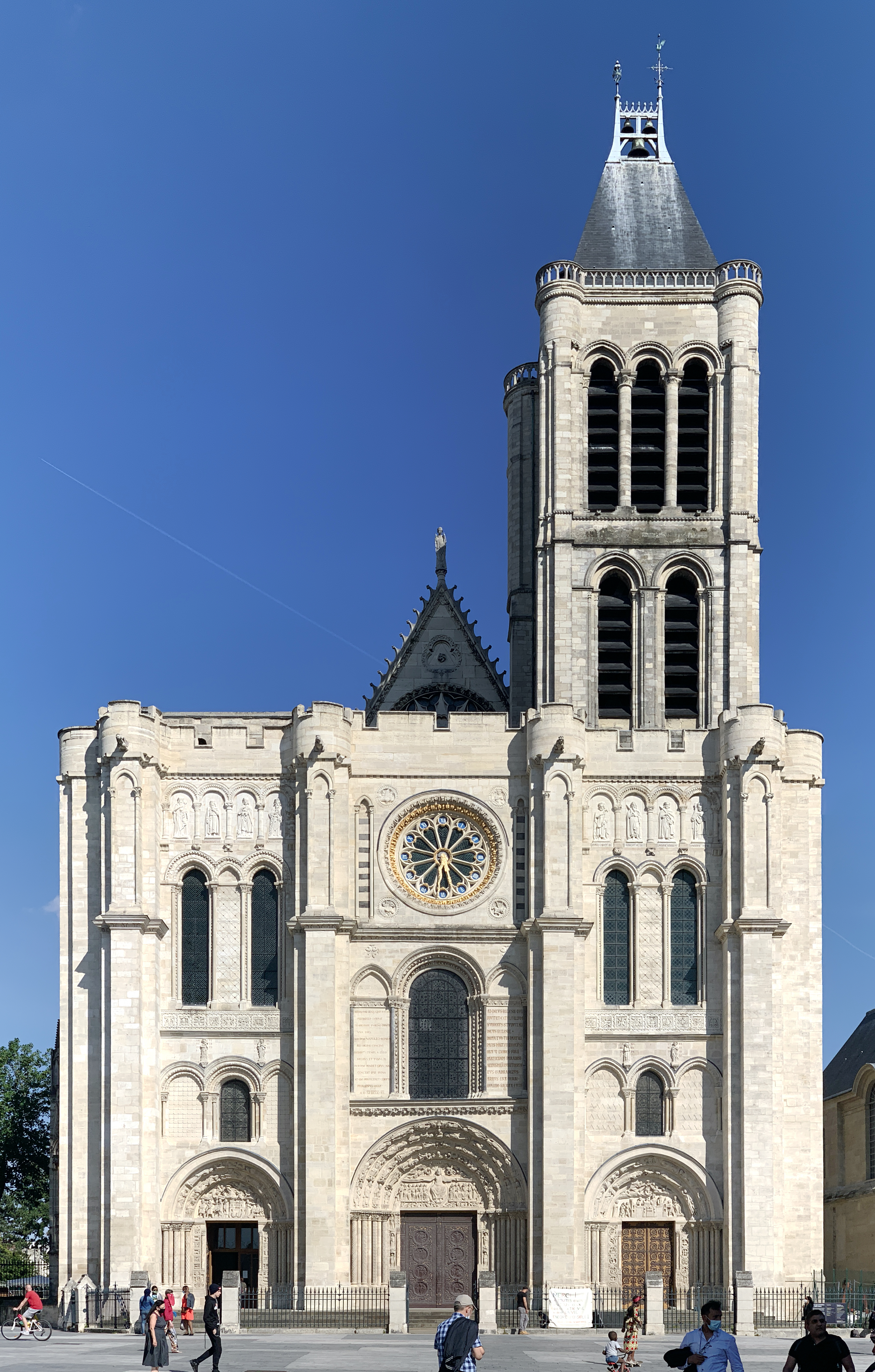 West facade of the Basilique Saint-Denis in Saint-Denis, Seine-Saint-Denis, France.